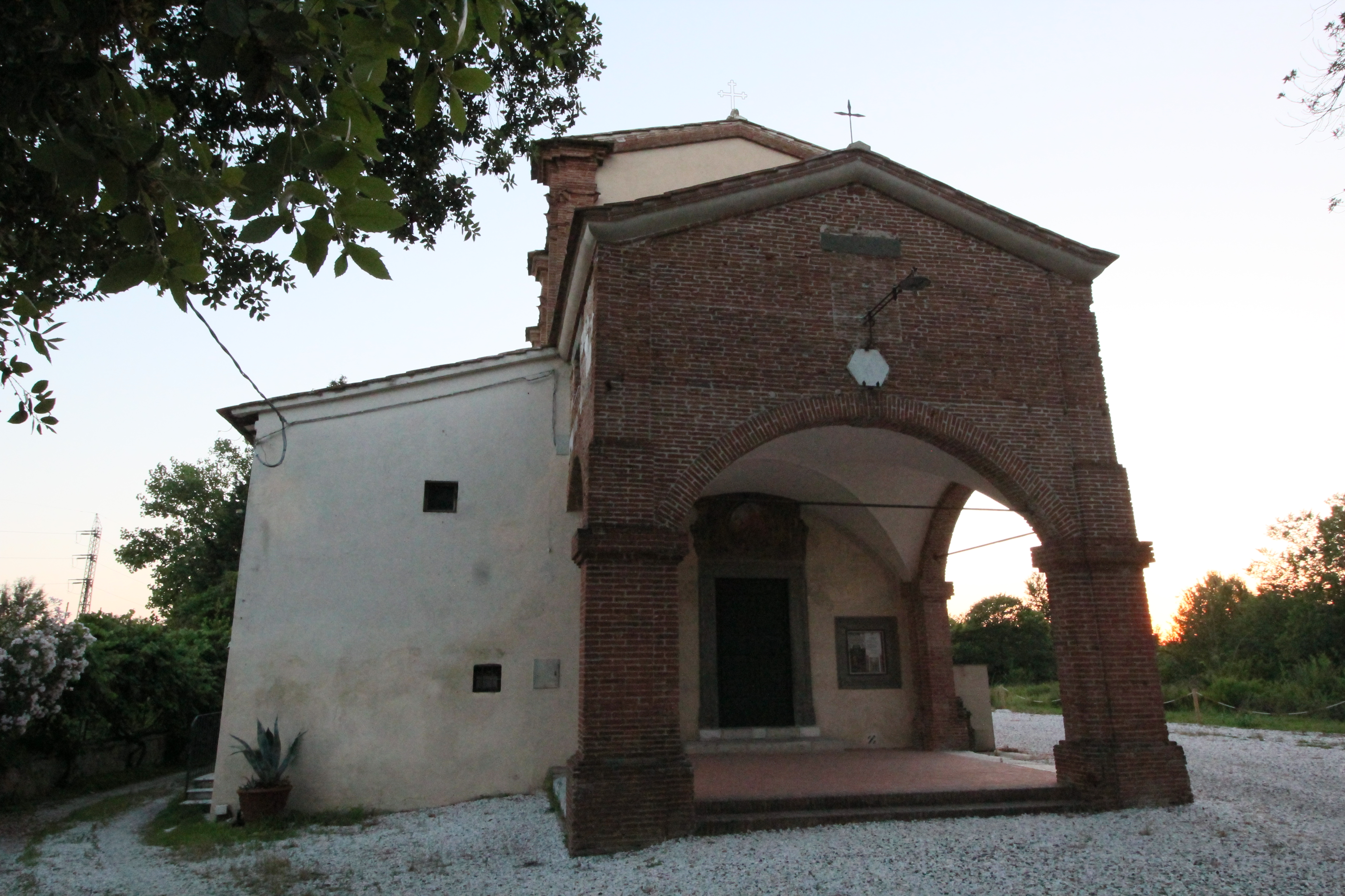 Church Santuario della Santissima Concezione di Madonna dell’Acqua, Madonna dell’Acqua, hamlet of San Giuliano Terme, Province of Pisa, Tuscany, Italy